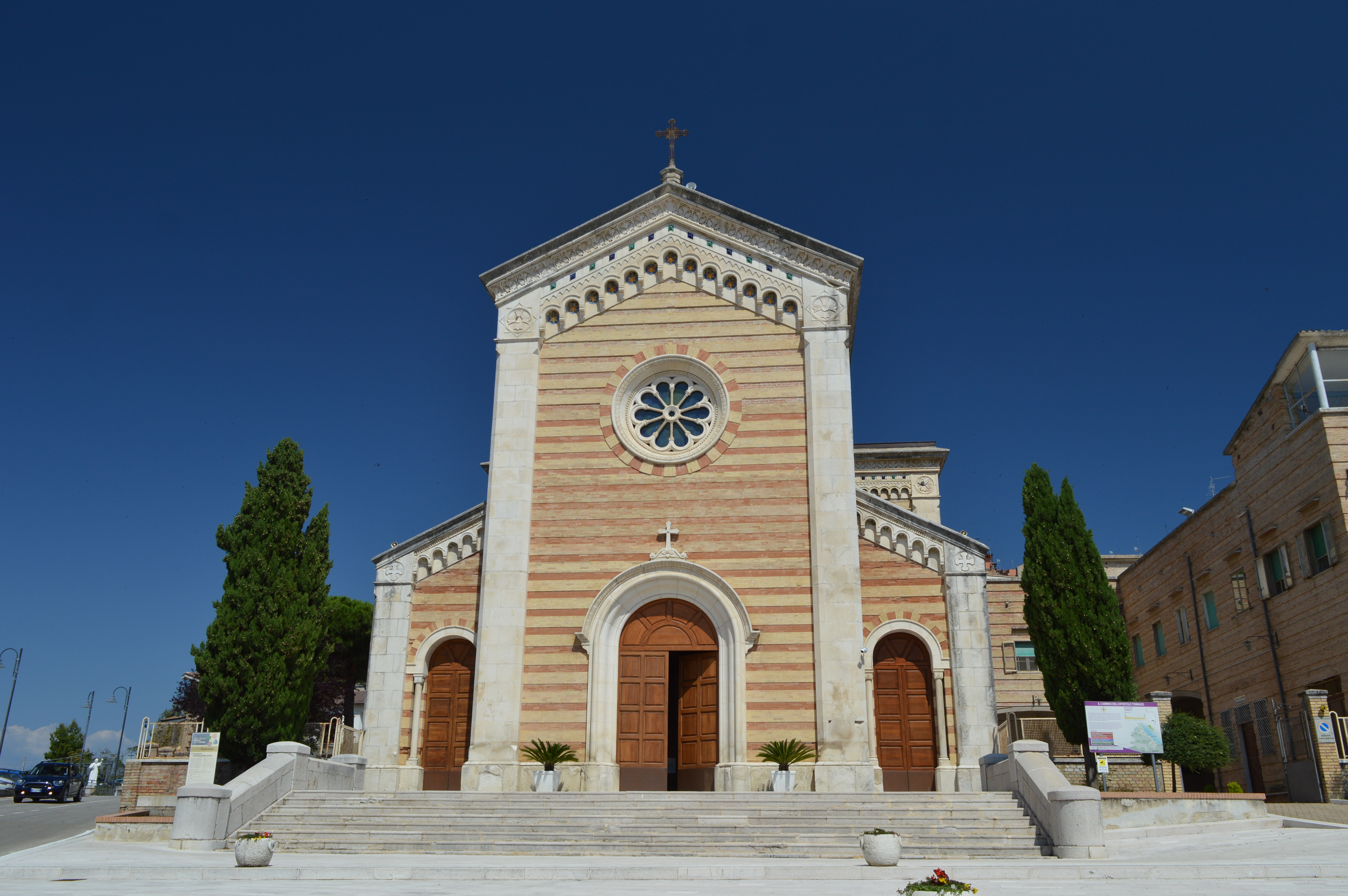 Facciata Santuario